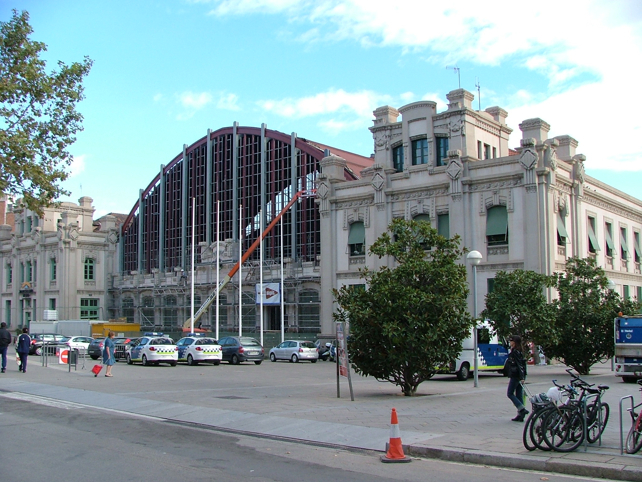 Bus station of Arc de Triomph,Barcelona ,Catalonia,Spain